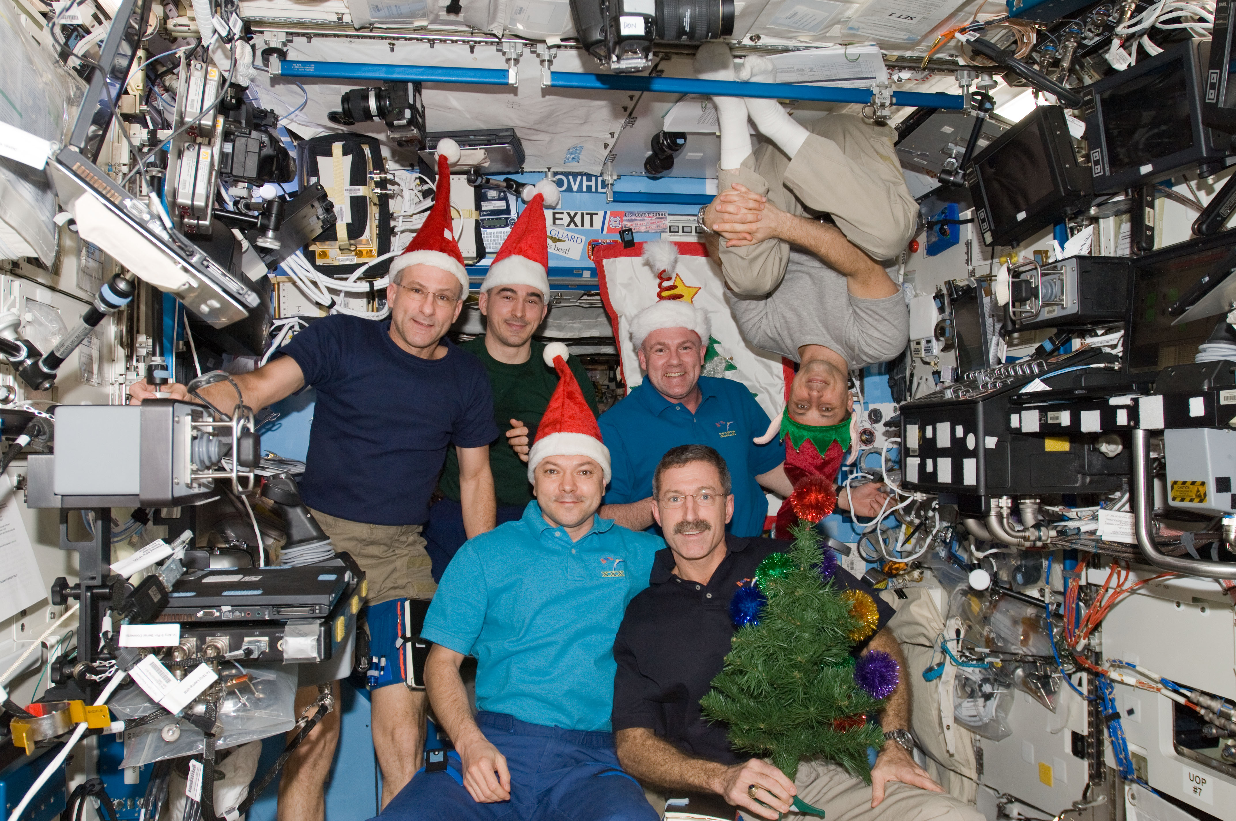 The six Expedition 30 crew members assemble in the U.S. Lab (Destiny) aboard the International Space Station for a brief celebration of the Christmas holiday on Dec. 25. In front are Expedition 30 Commander Dan Burbank (right) and Flight Engineer Oleg Kononenko. On the back row, left to right, are Flight Engineers Don Pettit, Anatoly Ivanishin, Andre Kuipers and Anton Shkaplerov (suspended with his feet anchored above the group). Burbank and Pettit are NASA astronauts; Kononenko, Shkaplerov and Ivanishin are Russian cosmonauts; and Kuipers represents the European Space Agency.